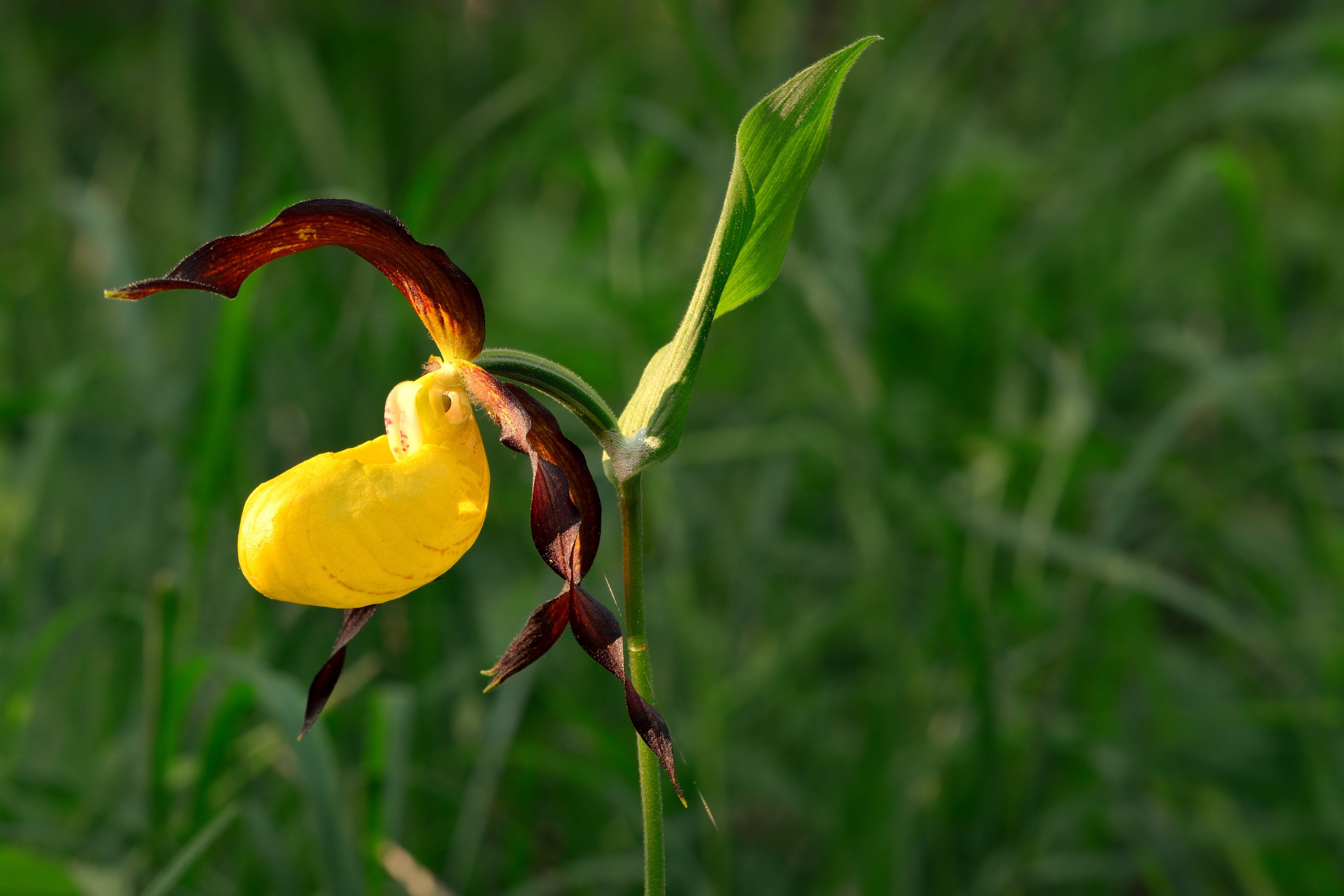 Lady's-slipper orchid (Cypripedium calceolus), alvar forest in Keila, Northwestern Estonia. It's rare and protected species in Estonia.